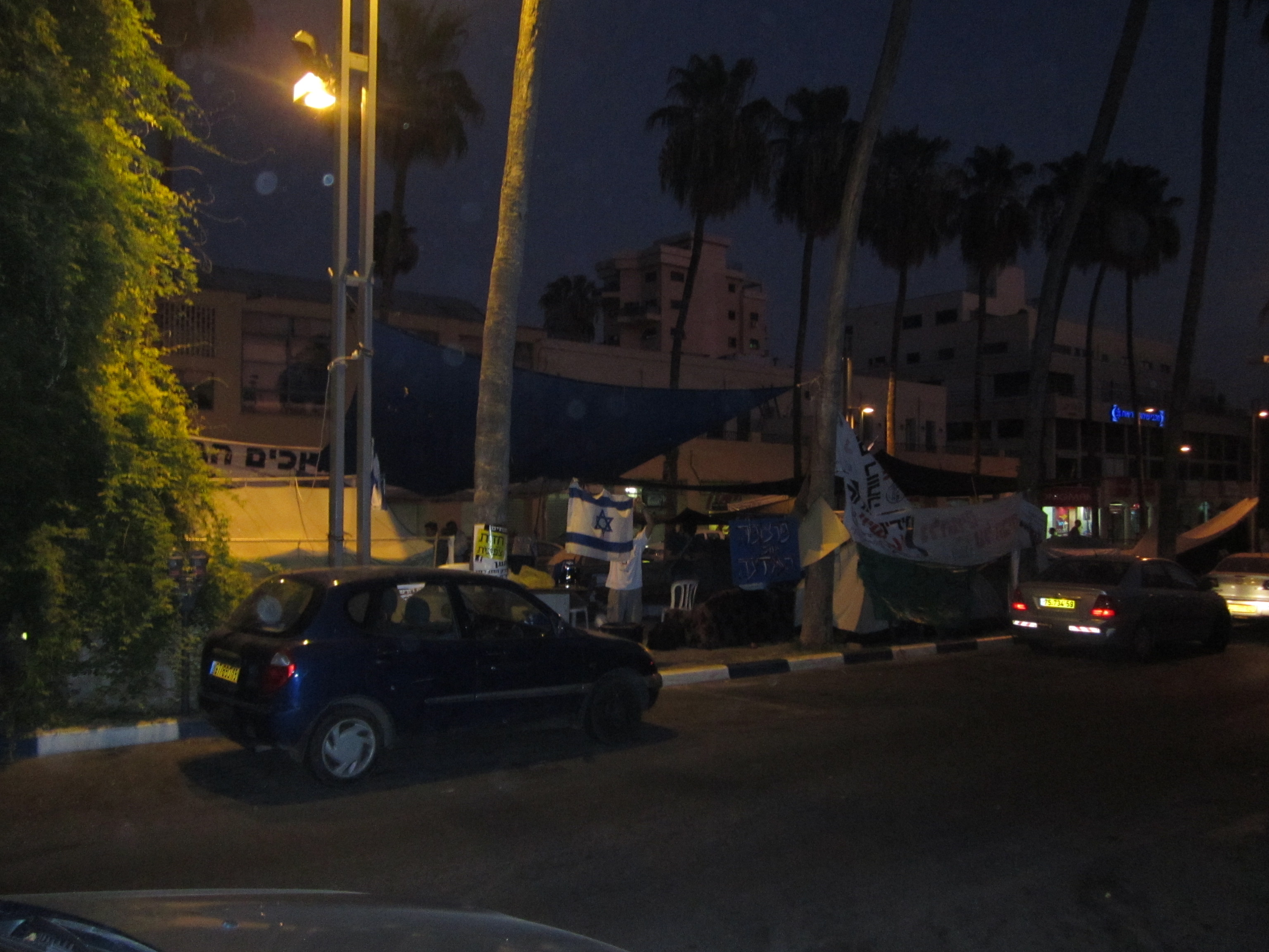 real estate protest tents in Arlosoroff blvd in Afula